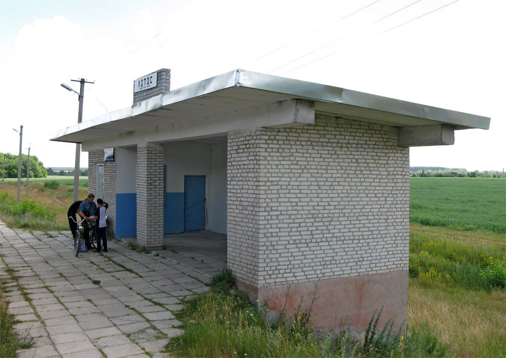 Пасажирський павільйон